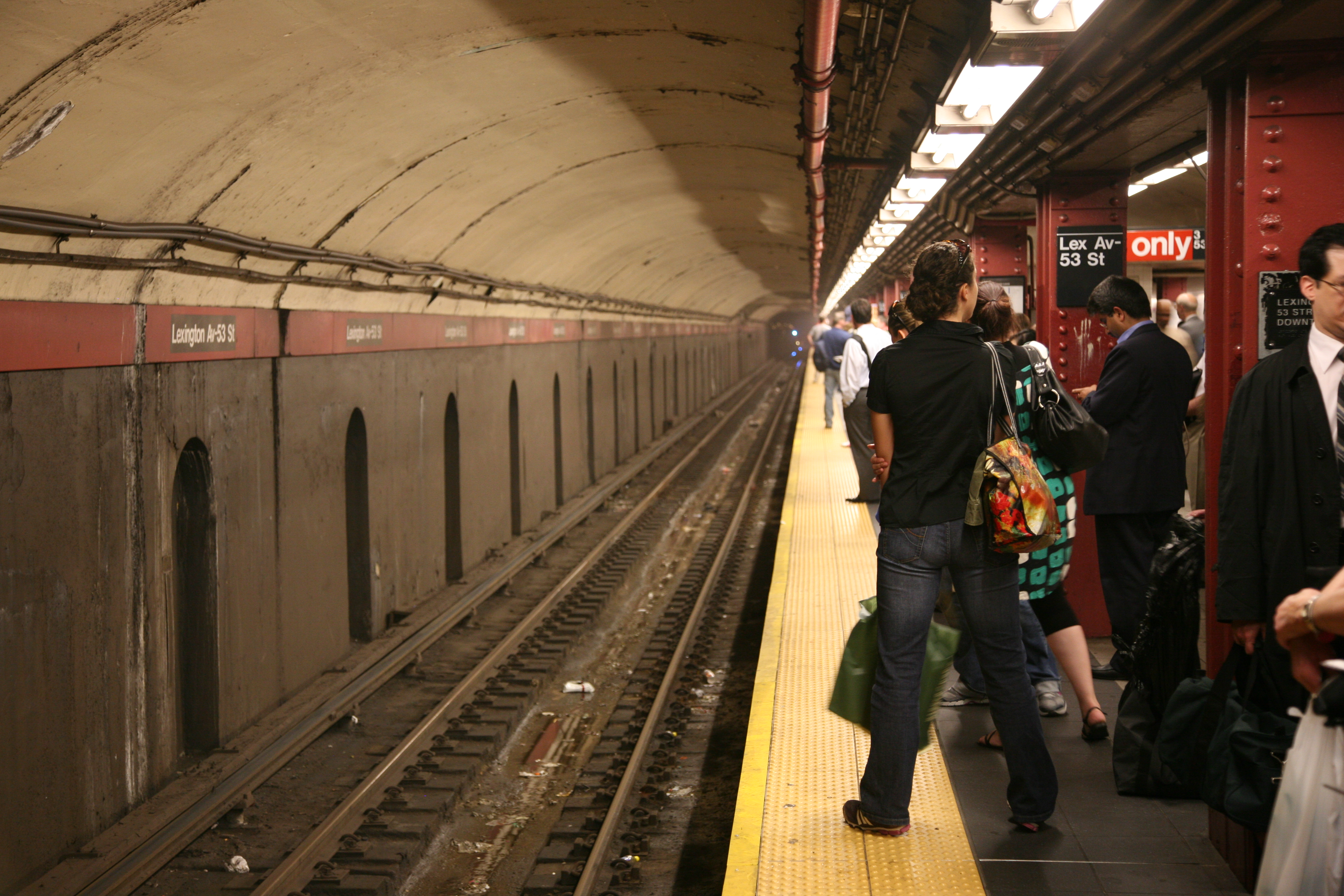 53rd and Lexington Avenue, New York City subway station